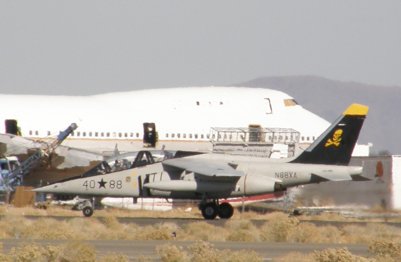 Dornier Alpha-Jet owned by Abbatare of Arlington, Washington, landing at Mojave